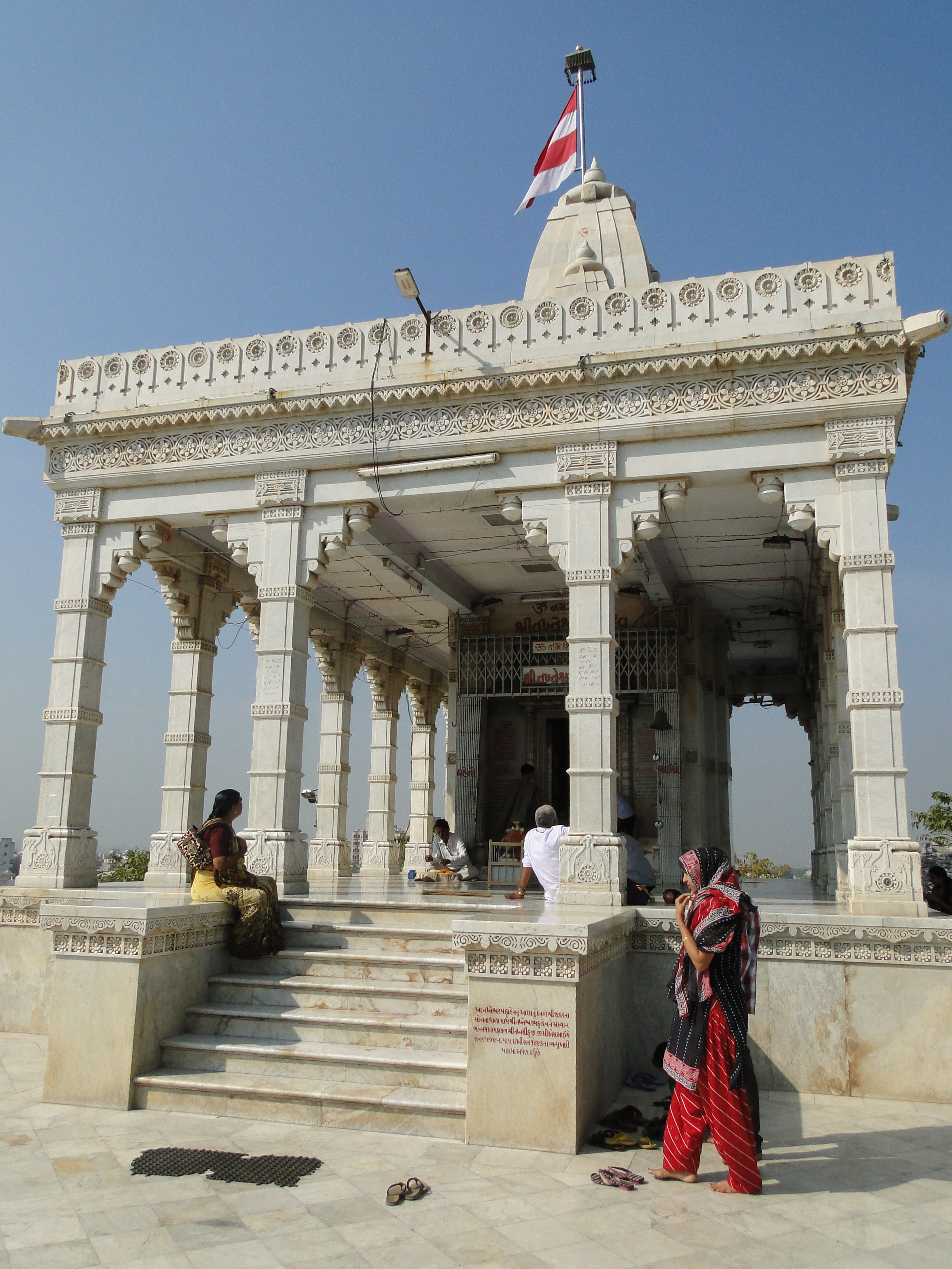 Takhteshwar Temple, Bhavnagar, India